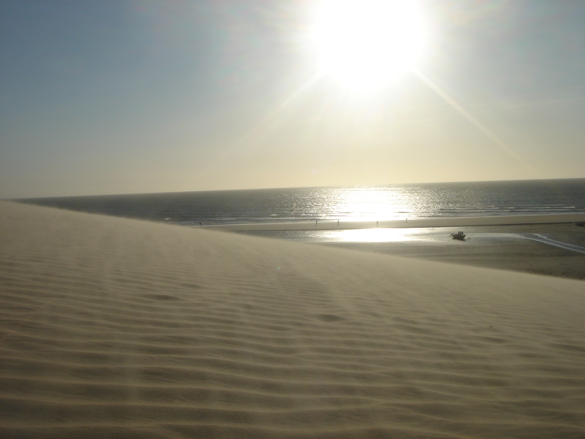 Jijoca de Jericoacoara dune beach at sunset, Ceará, Brazil